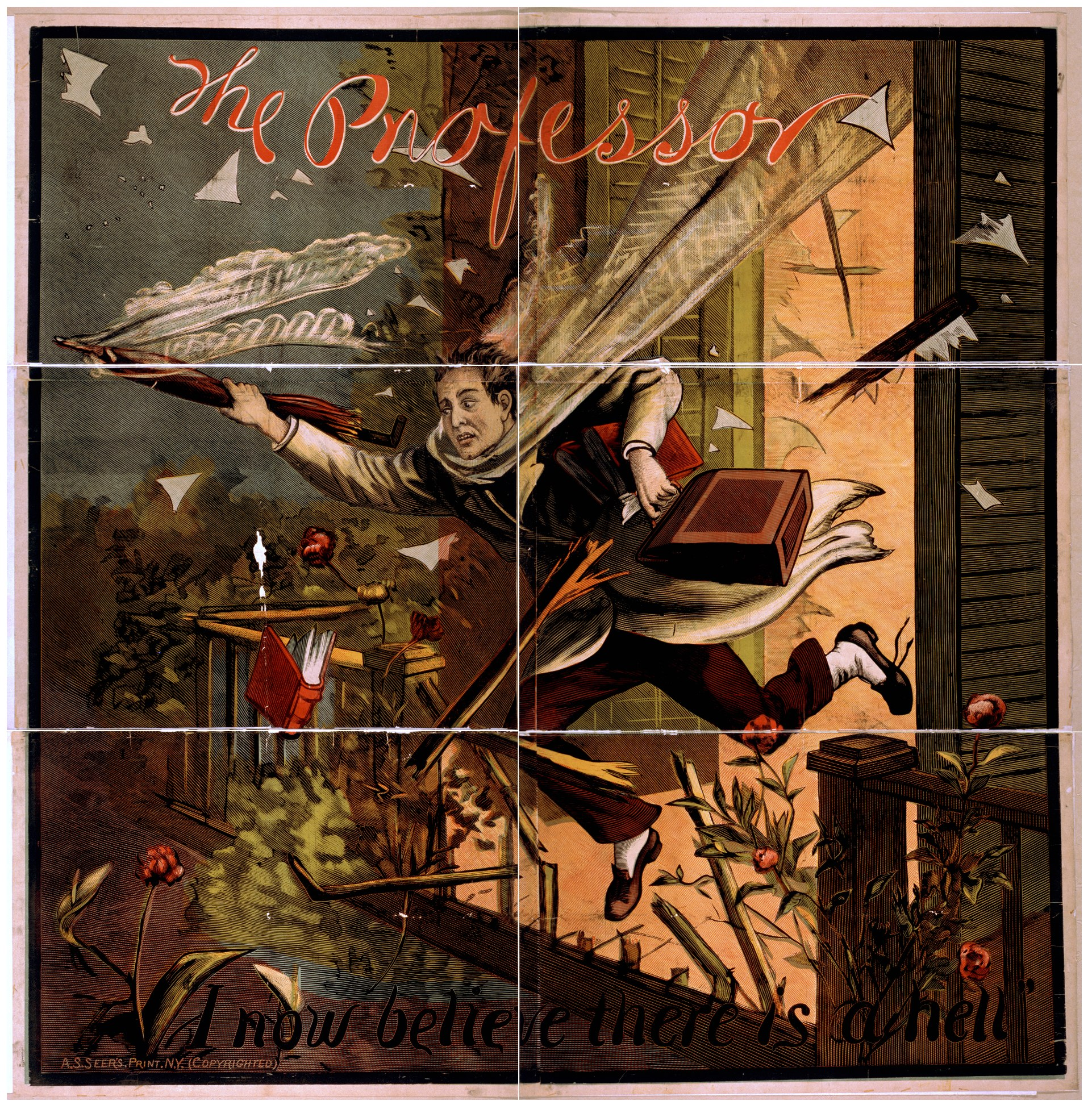 Title: The professor Abstract/medium: 1 print : color woodcut ; sheet 210 x 204 cm. (poster format)